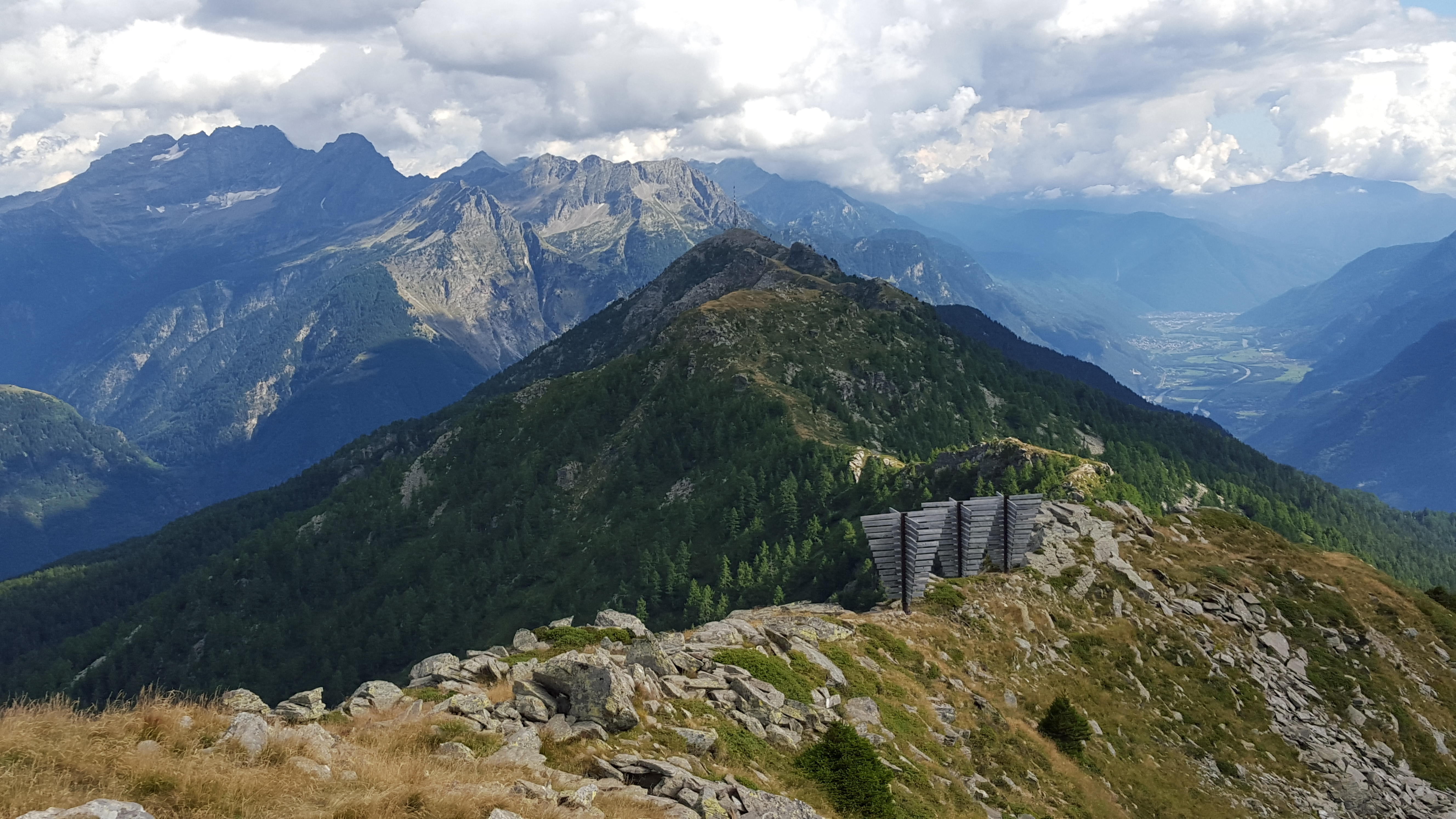 Matro, picture taken from Pizzo Pianché (Faido/Acquarossa, Ticino, Switzerland)